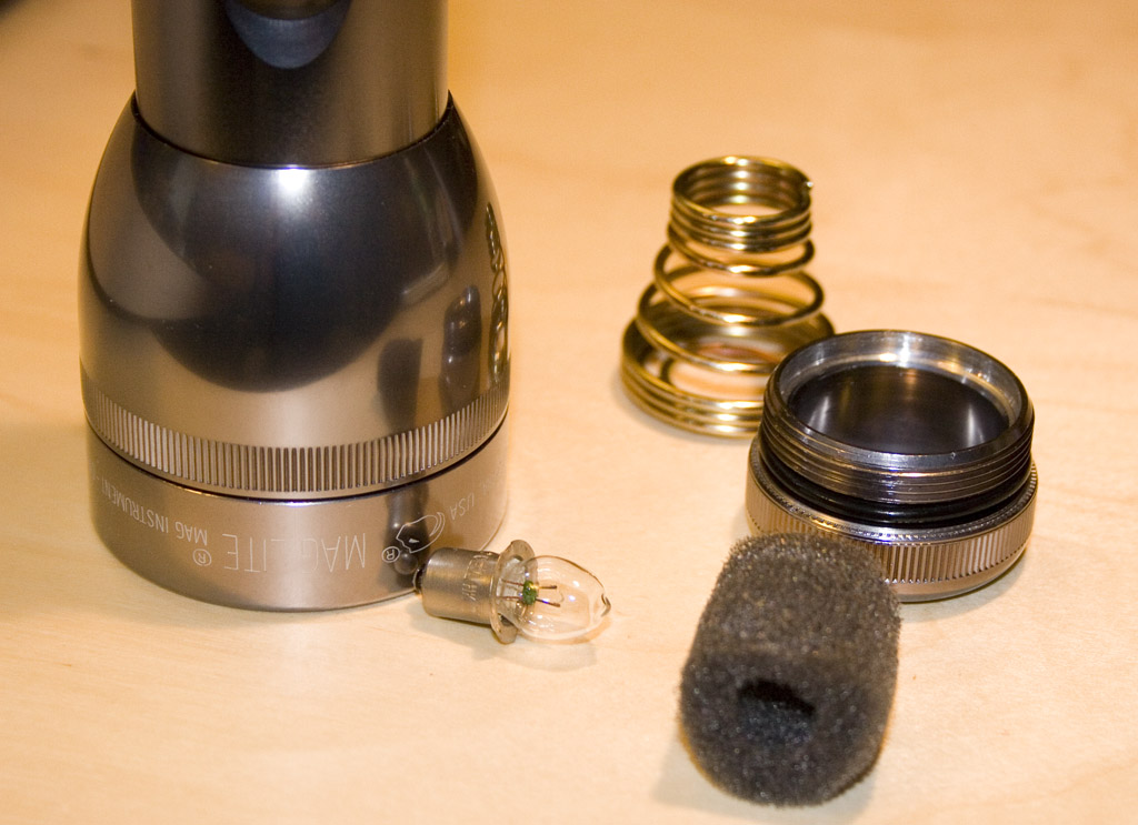 Tailcap contents of a Mag Lite 2D flashlight: screw-on cap, terminal spring, spare light bulb and foam padding.